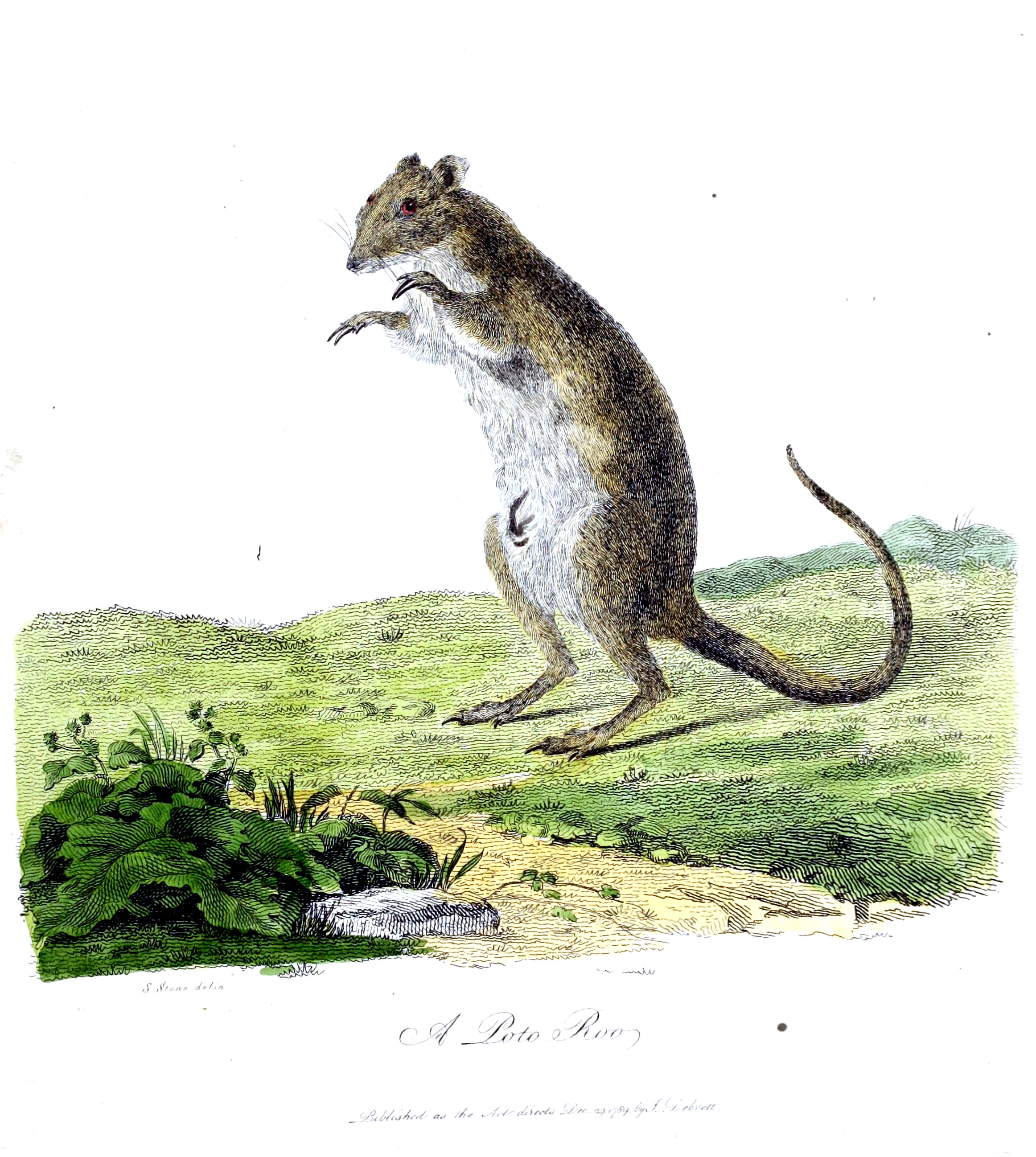 Illustration of an Australian marsupial, colour levels modified, page cropped, the species is curently named as Potorous tridactylus